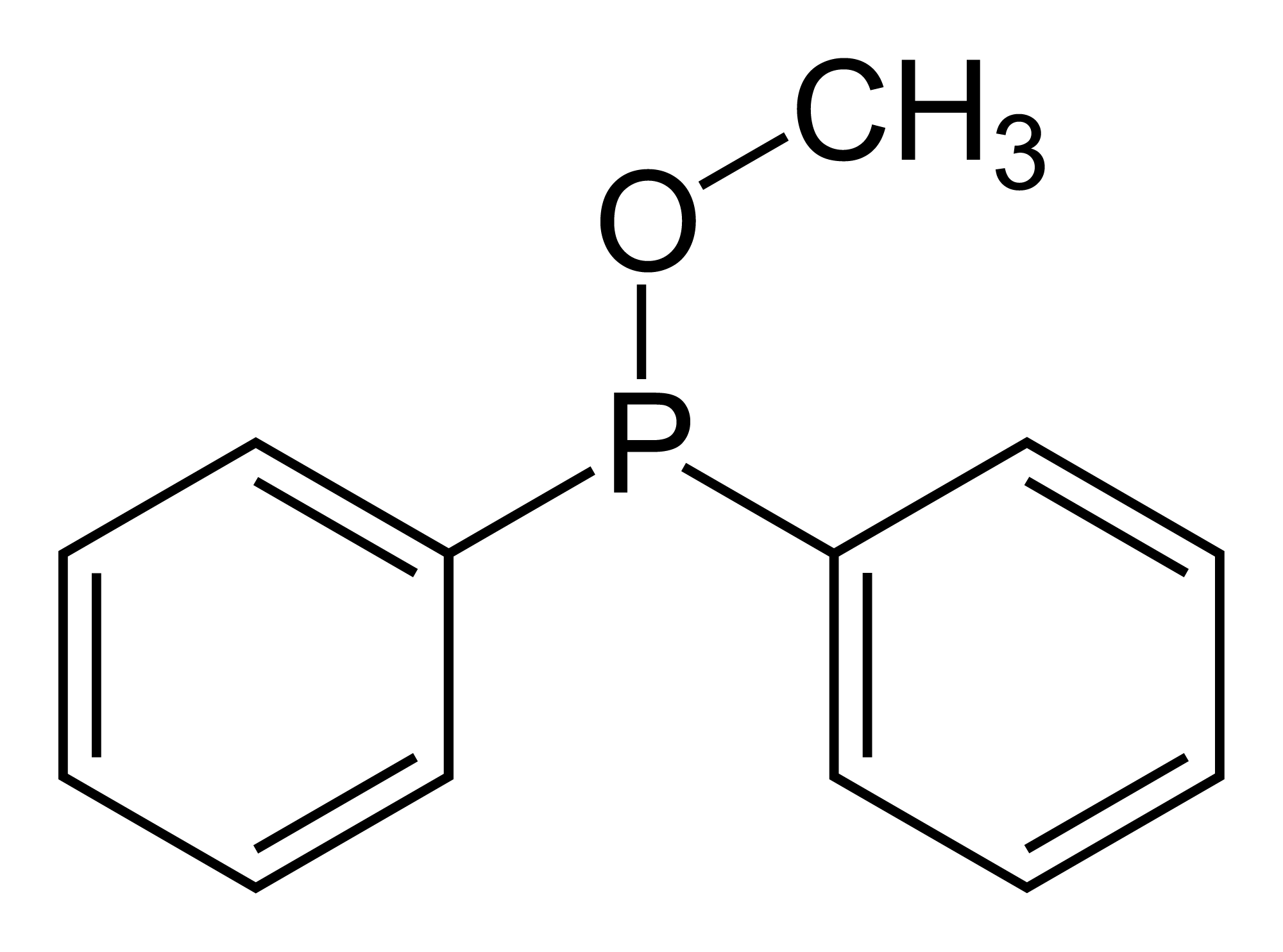 Skeletal formula of methyl diphenylphosphinite, C13H13OP, a simple example of a phosphinite. Structural formula based on 149497 Methyl diphenylphosphinite (CAS # 4020-99-9) at Sigma-Aldrich's website. Image generated in ChemBioDraw Ultra 12.0.